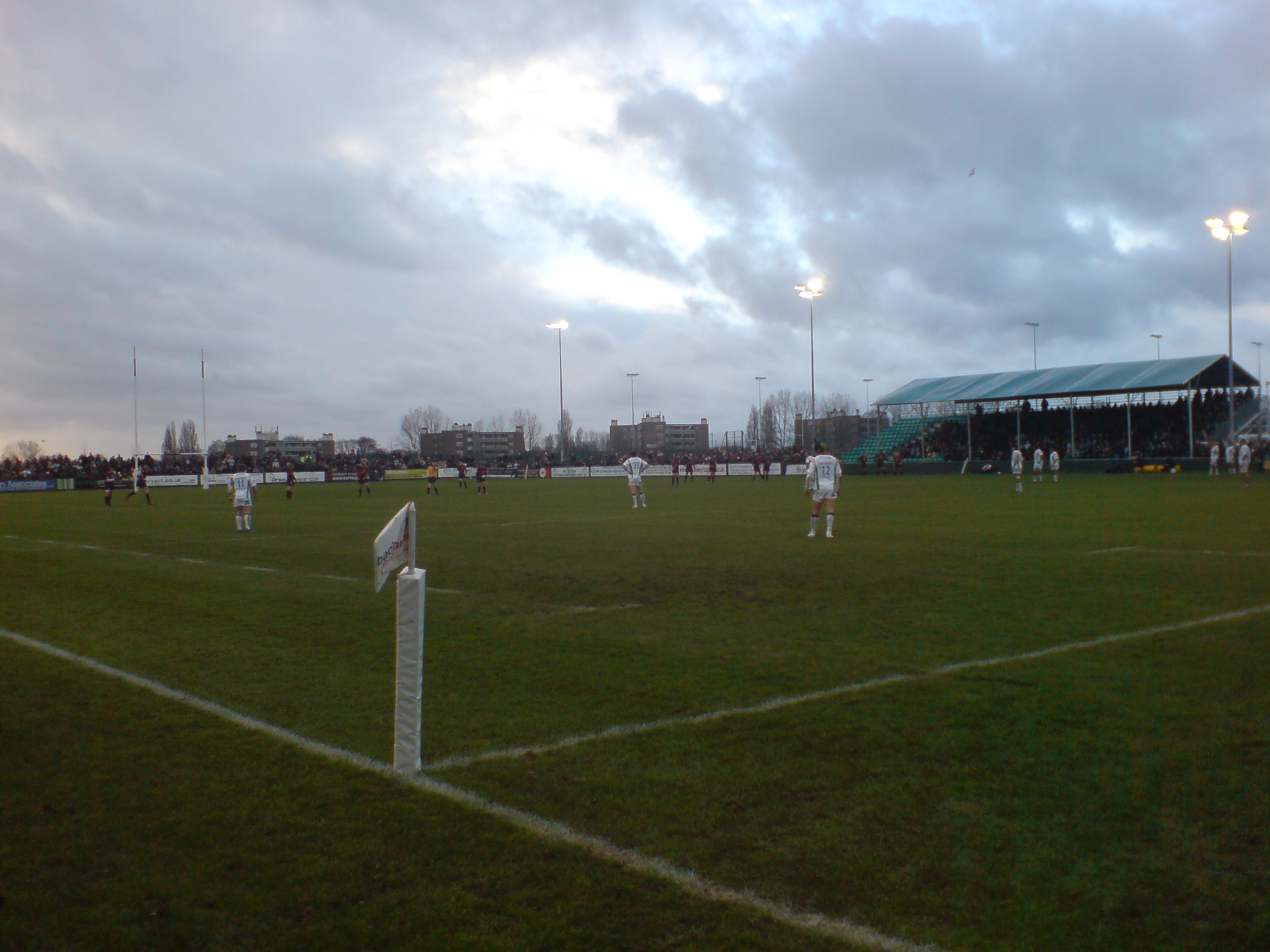 My own work,taken at Billesley Common, Birmingham, UK. National Division One, Moseley vs Northampton, 29th Dec 2007. Northampton won 27-18. Photo taken by Dunk the Lunk